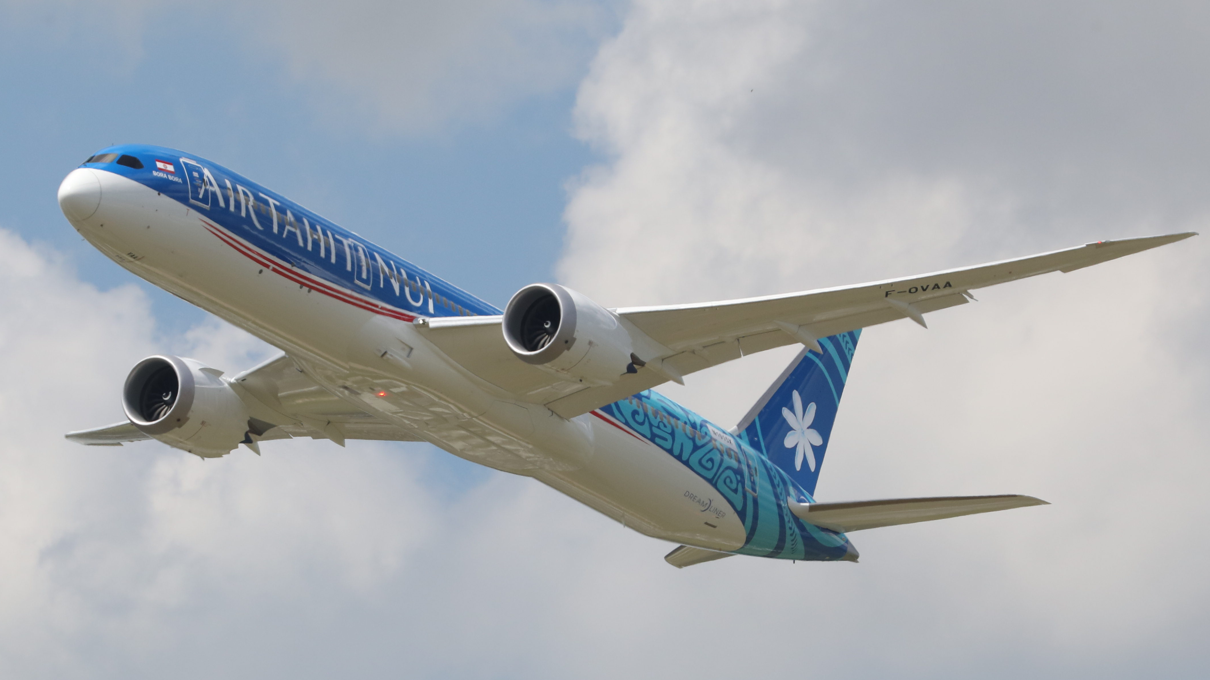 Paris Air Show 2019